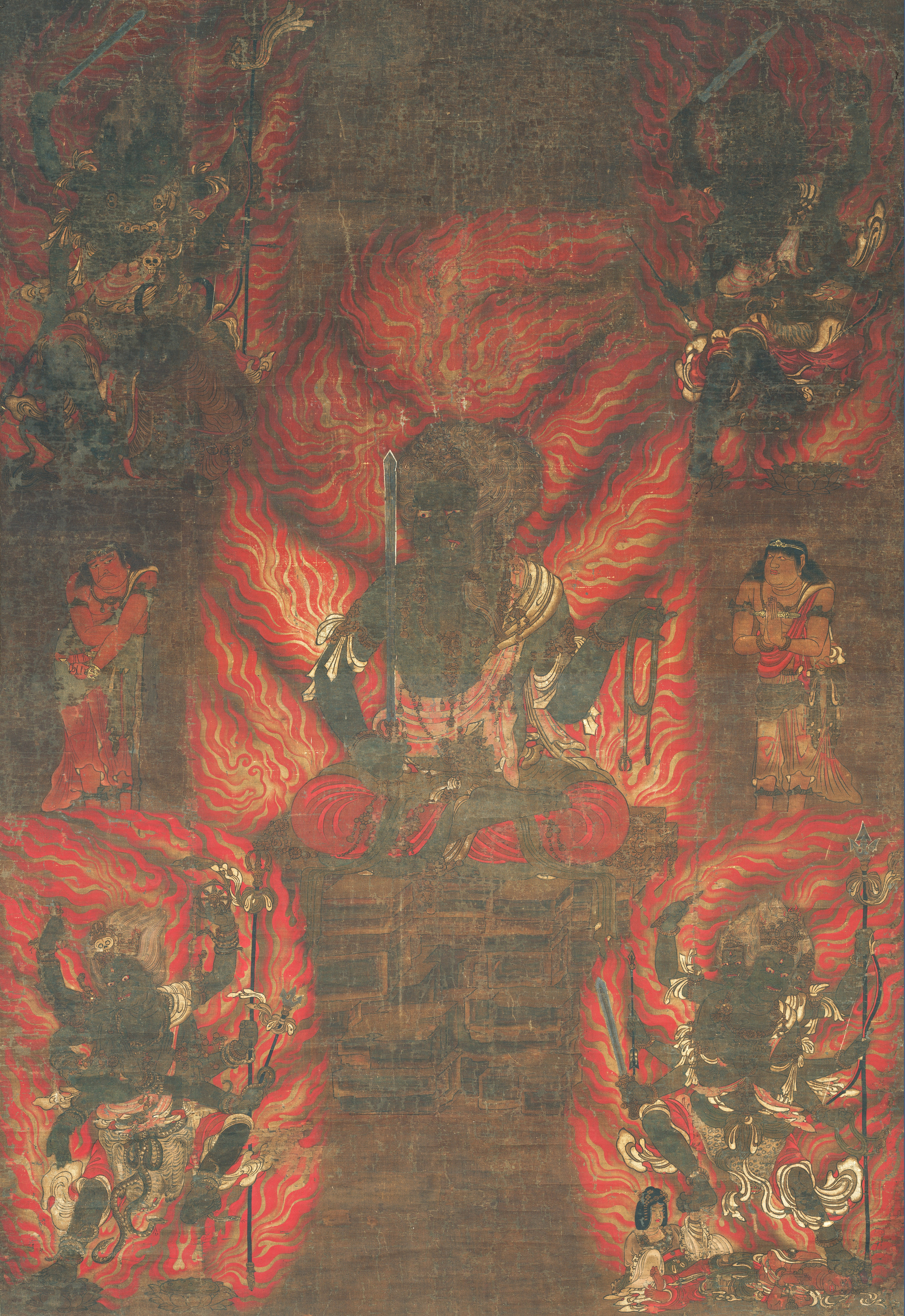 Five Great Myōō, Nara National Museum